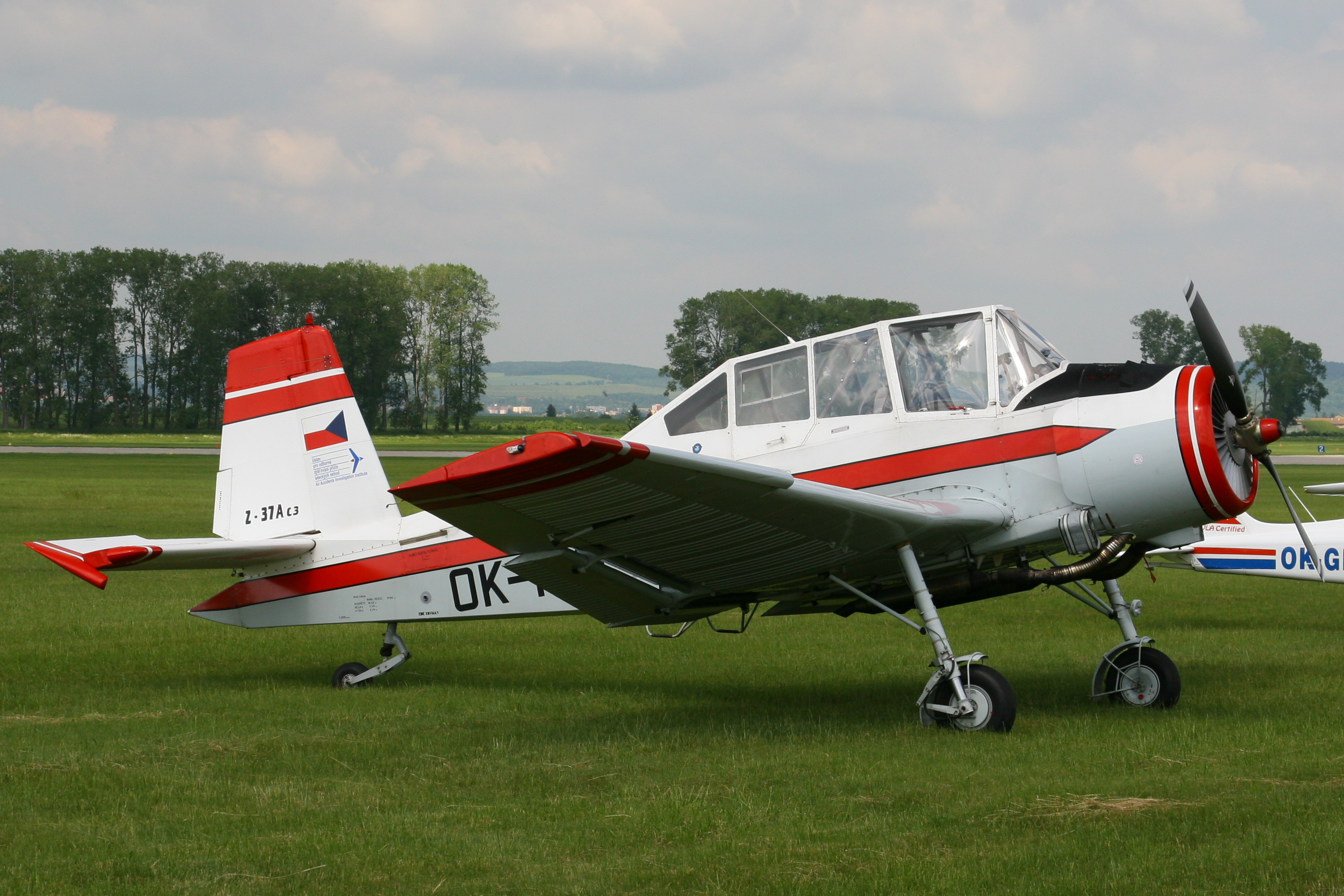 Let Z-37 A at Open Day 2009, AFB Čáslav (LKCV), Chotusice, The Czech Republic